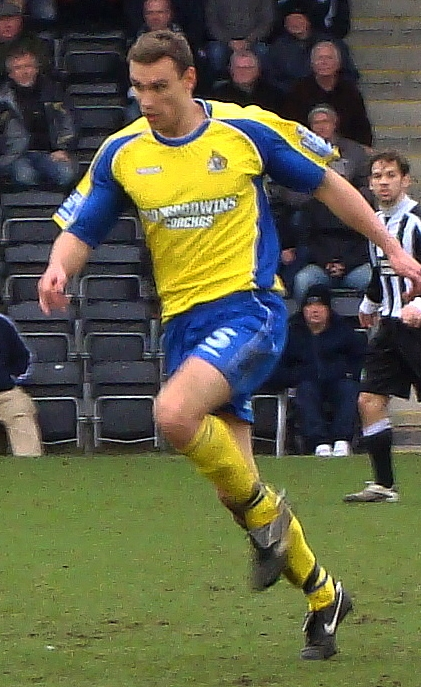 Greg Young playing for Forest Green Rovers against Altrincham at The New Lawn, Nailsworth on 27 March 2010